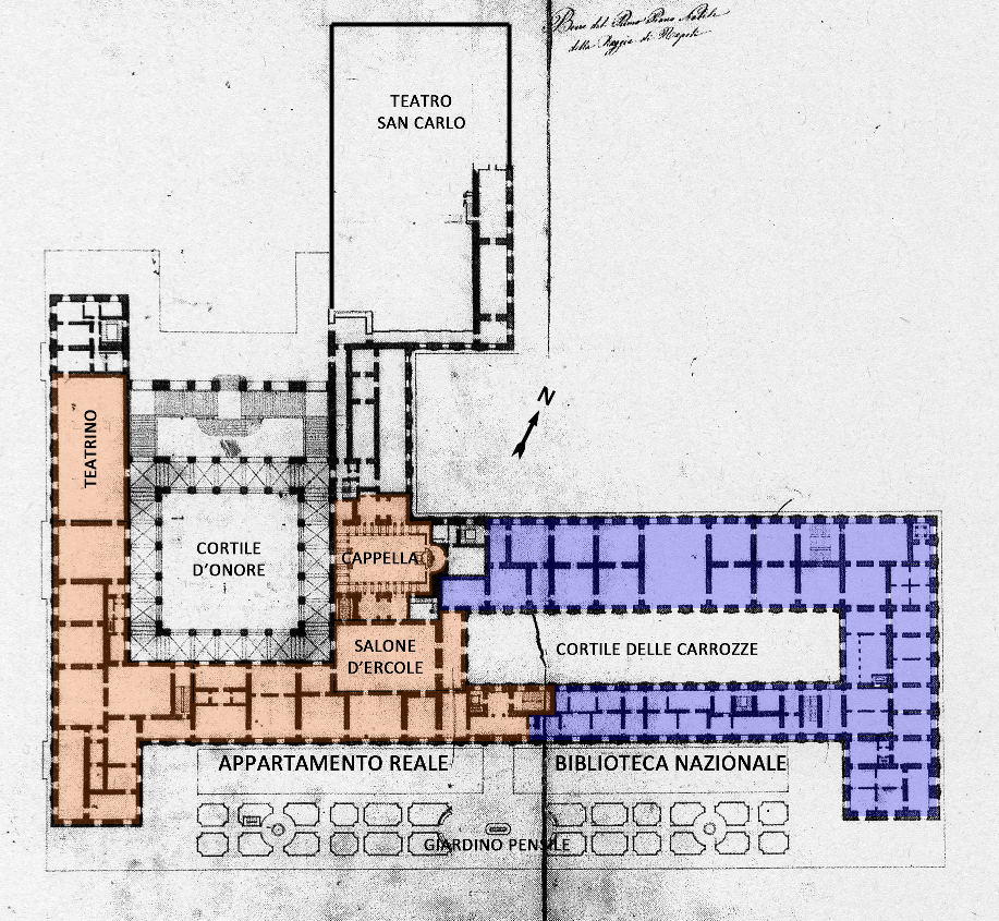 First floor plan of the Royal Palace of Naples (plan 1900s, colours 2000s)